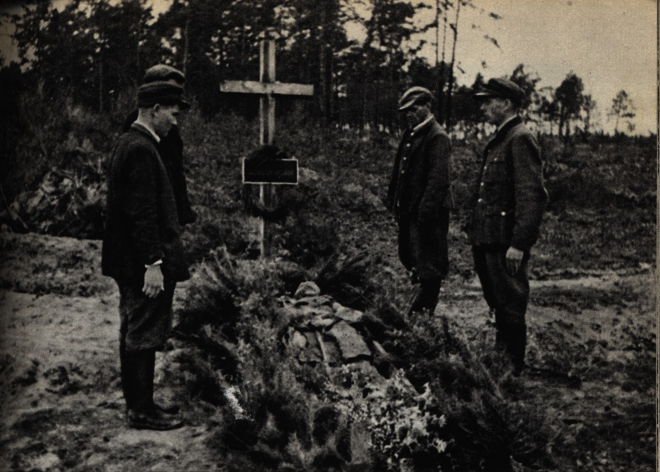 Exhumation of bodies of victims massacred by Nazi-Germans in Palmiry near Warsaw. This photo shows a body of Mieczysław Niedziałkowski – leader of the Polish Socialist Party who was murder in Palmiry in June 1940.